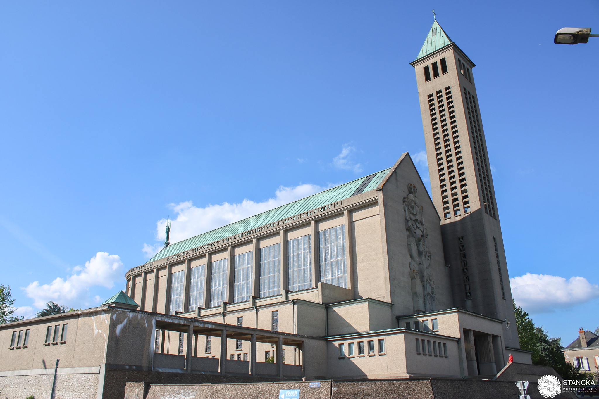 Basilique Notre-Dame de la Trinité